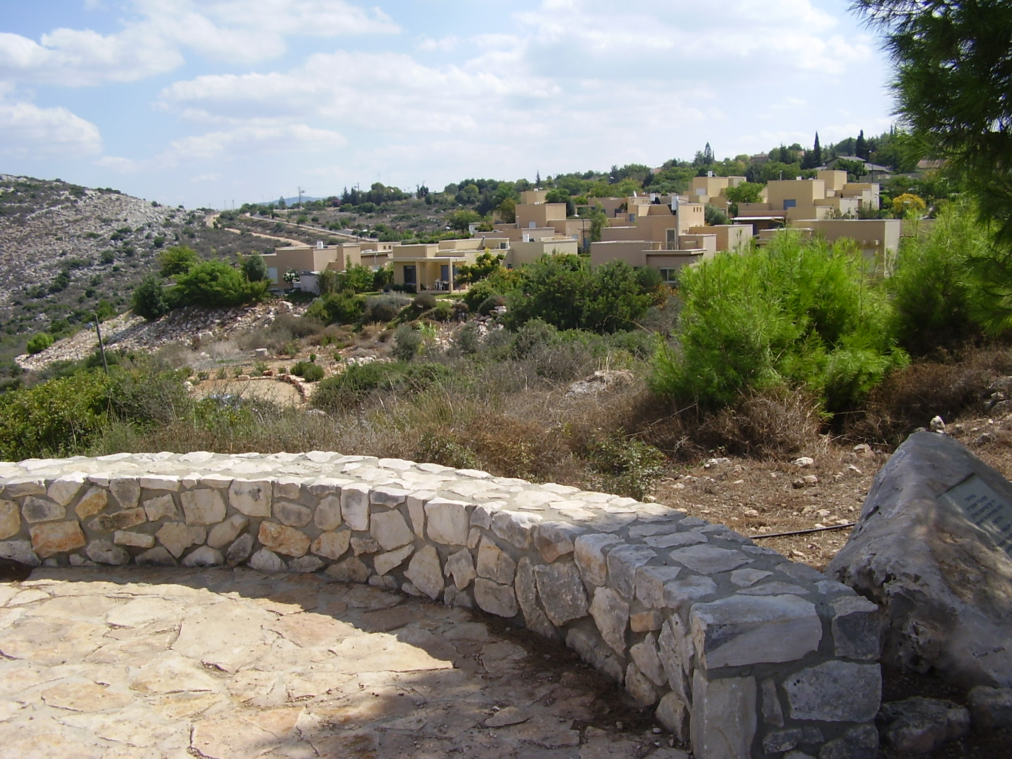 Arbel Hill in Yuvalim